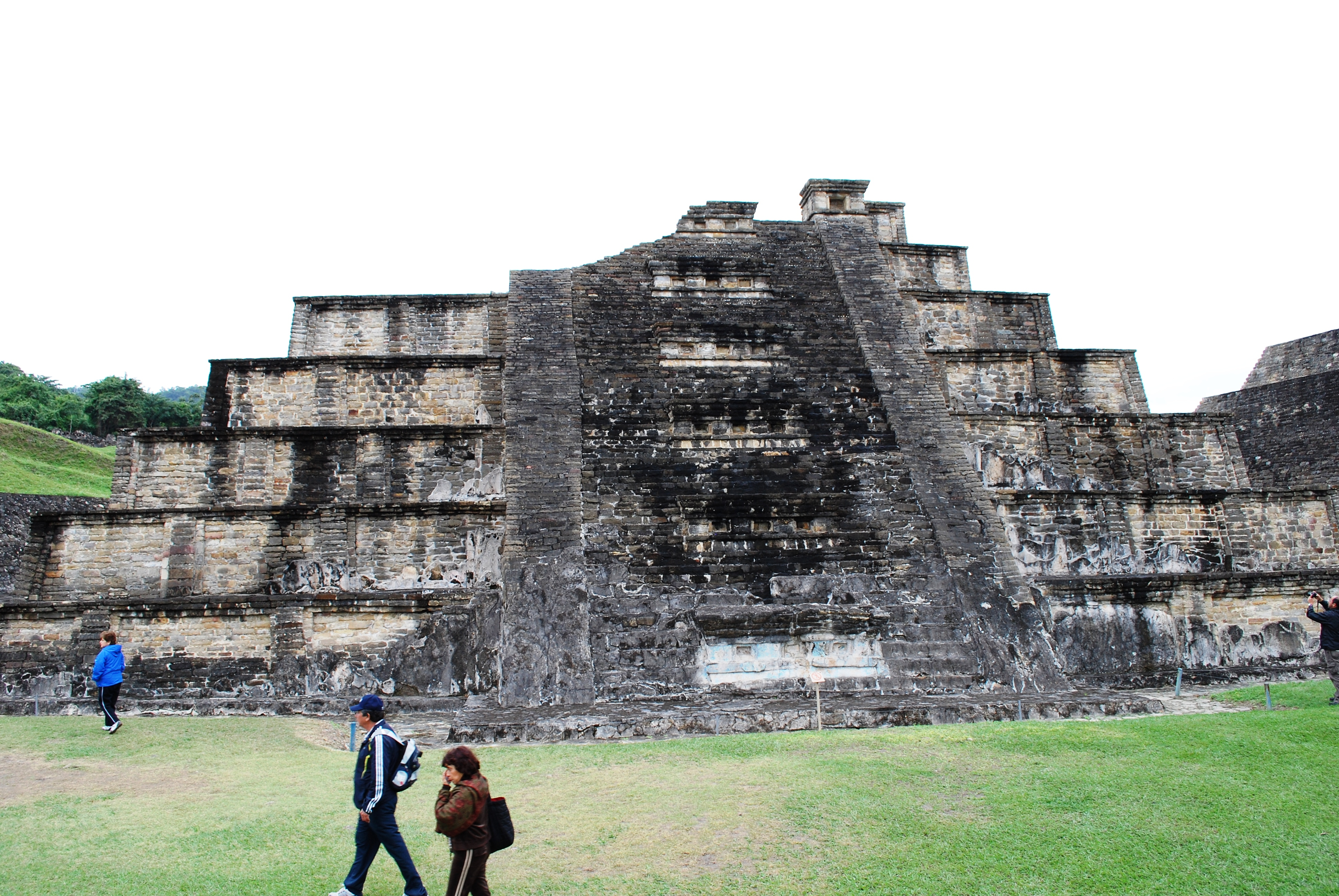 Blue Temple or Building 3 at Tajin, Veracruz, Mexico